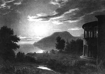 J. Mivill. "House Borozdina in Kucuk Lambath" 1818